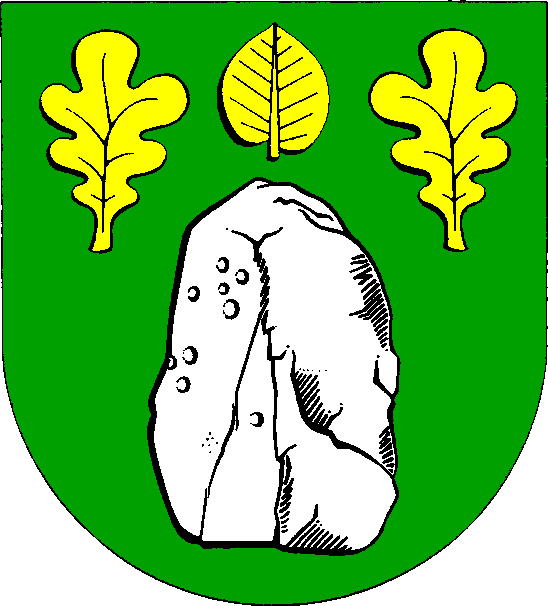 Coat of arms of the municipality Beringstedt in Schleswig-Holstein, Germany.